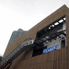 Expo 2010 Madrid's UBPA(Urban Best Practices Area) Case